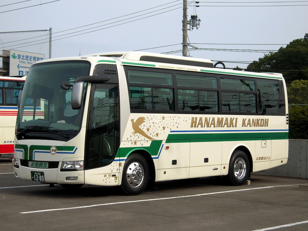 Hanamaki Kanko bus Nissan Diesel Space Arrow A (short tipe, PDG-AM96FH),Pictured by Mutimaro,at Tagajo city,Miyagi pref.,Japan.